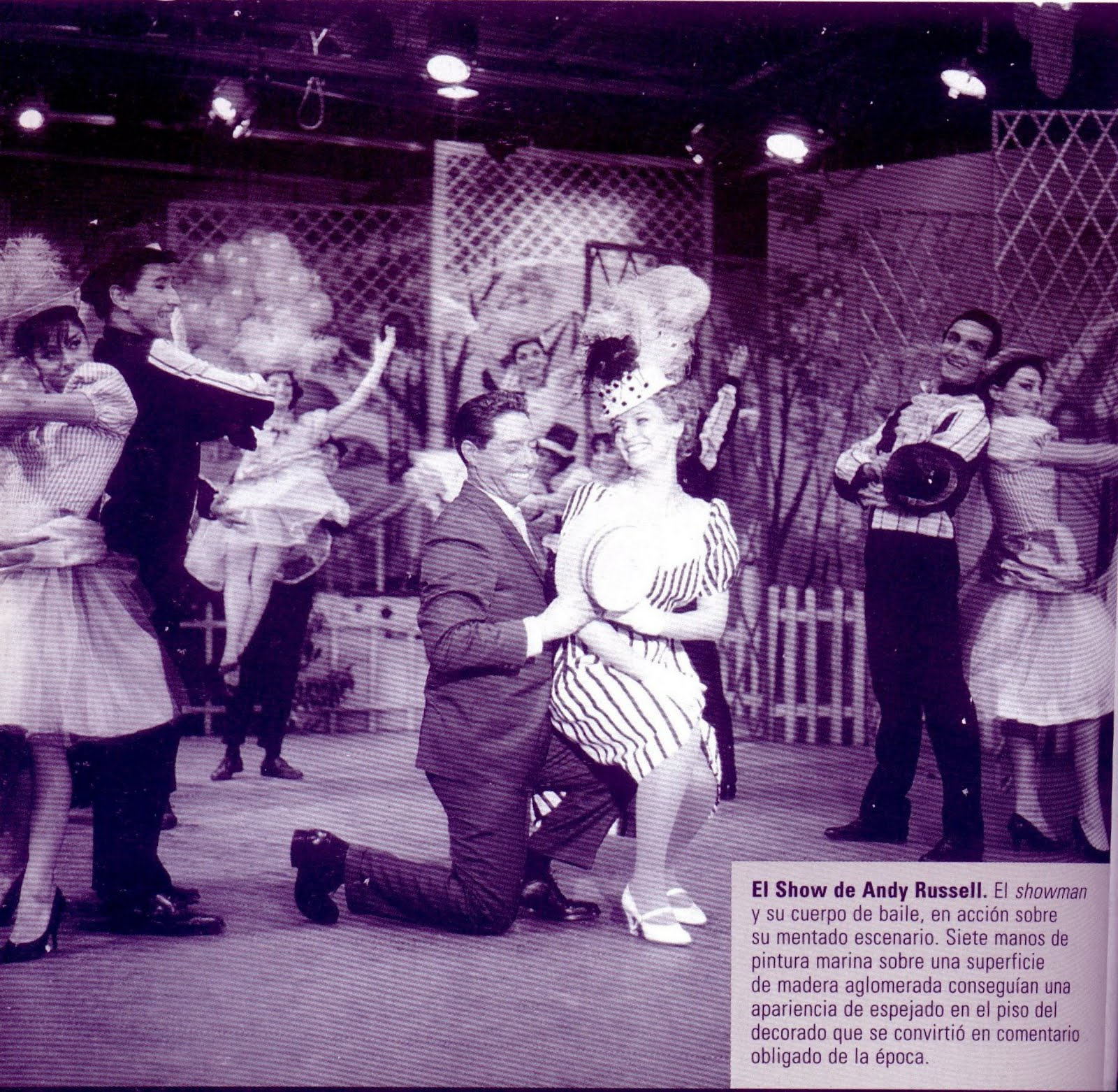 Publicity photograph from the 1956-1965 Argentinean television variety program "El Show de Andy Russell."